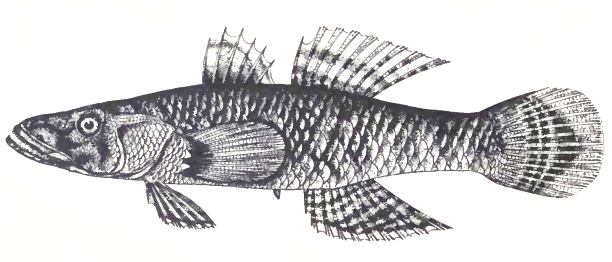 Crazy fish, Butis butis (Hamilton, 1822)